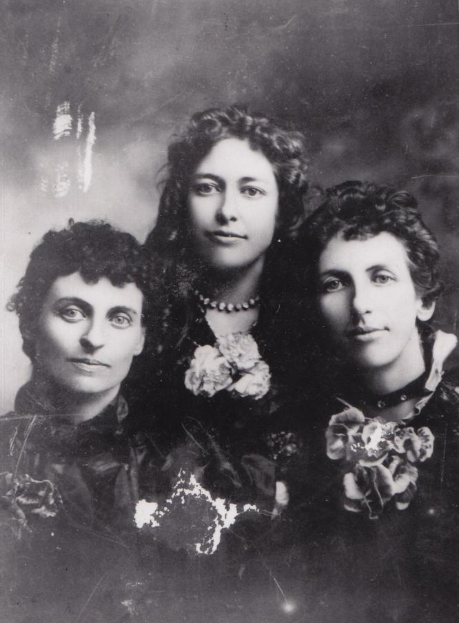 Three of the Cherry Sisters siblings portrait.